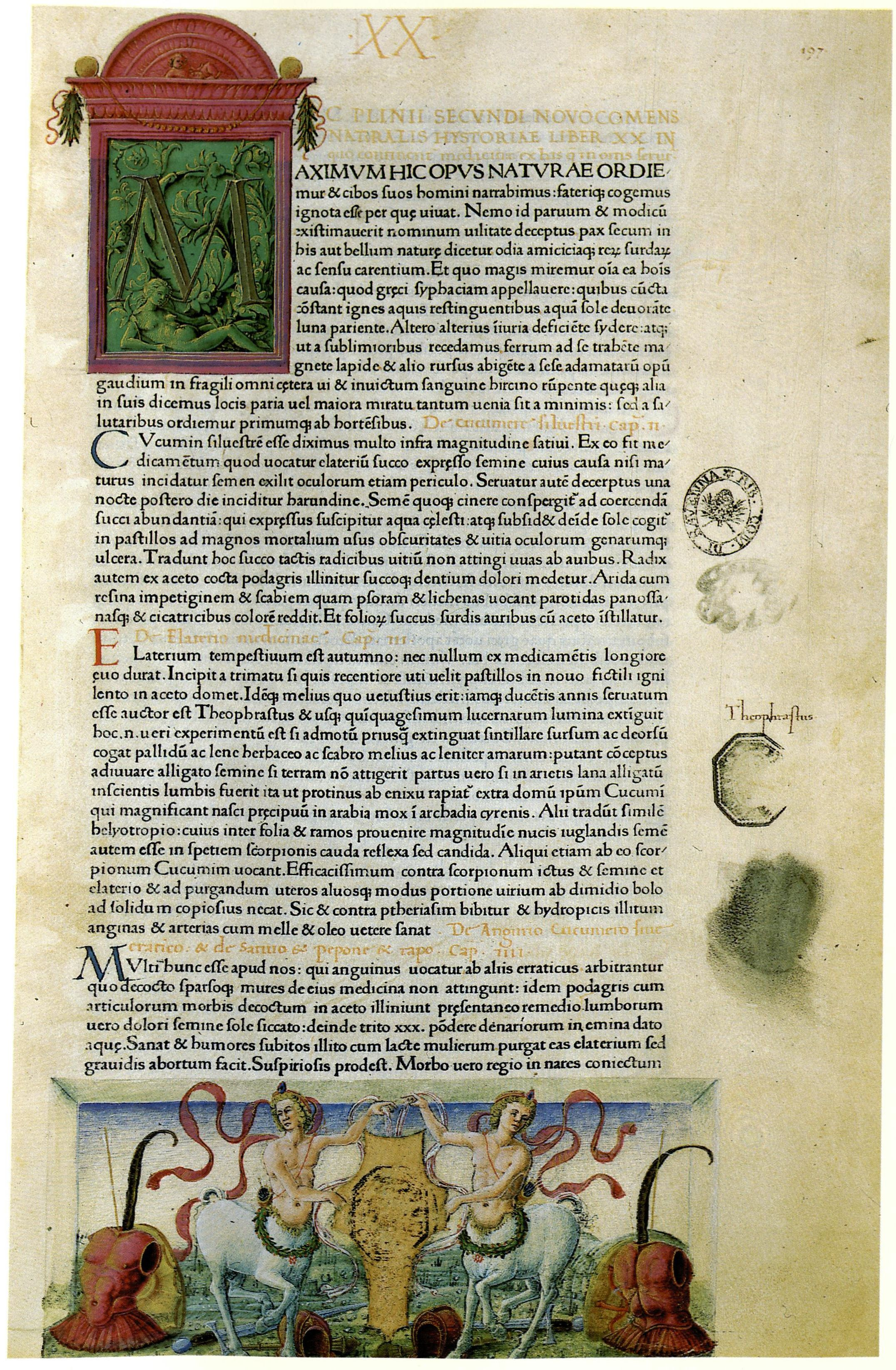 A page of the „Naturalis historia“ in the incunable printed at Venice in 1469 by Johann of Speyer.